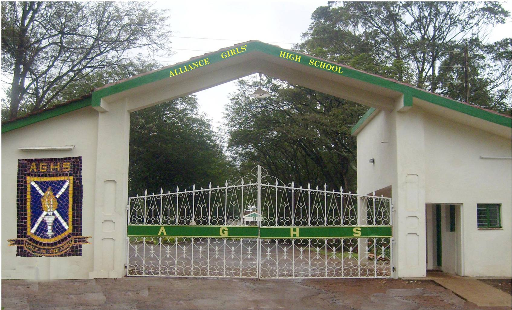 A picture of AGHS school gate.